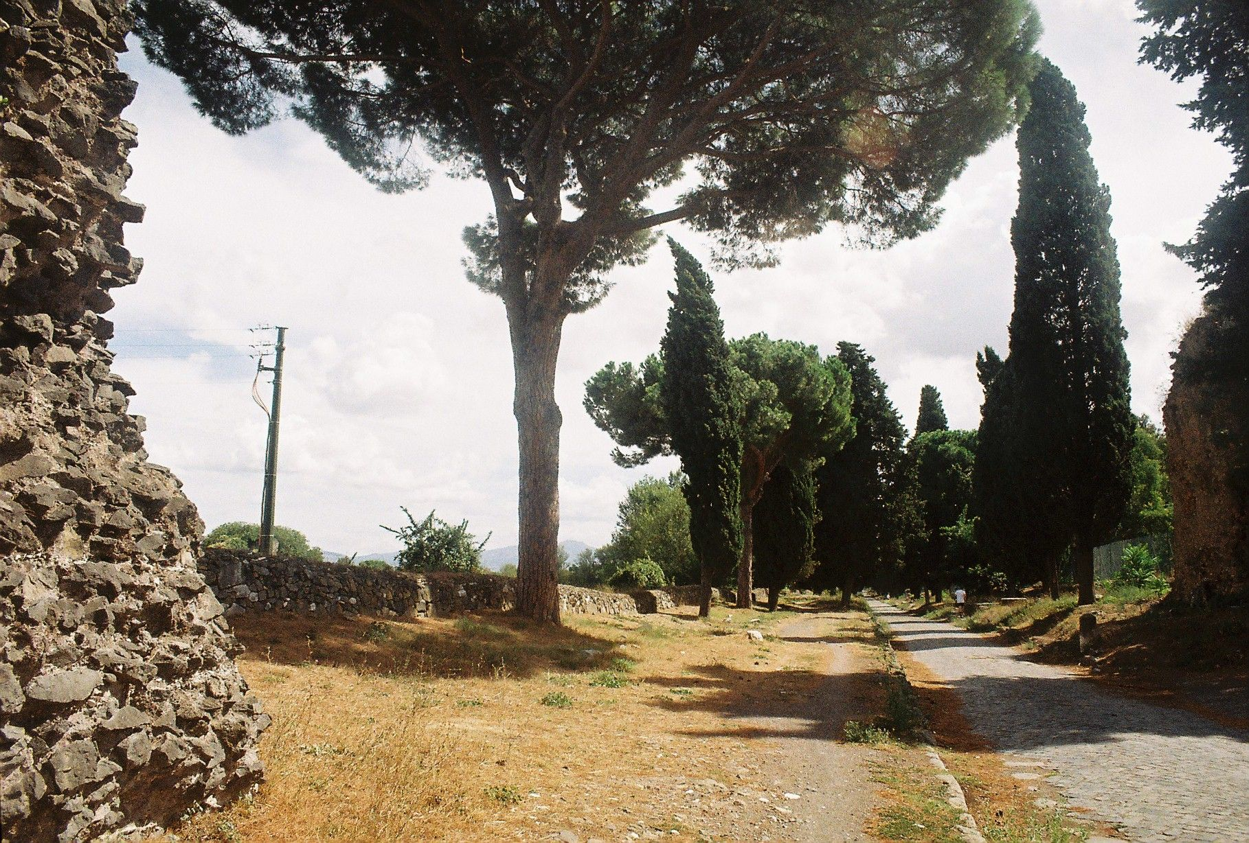 Via Appia at Rome